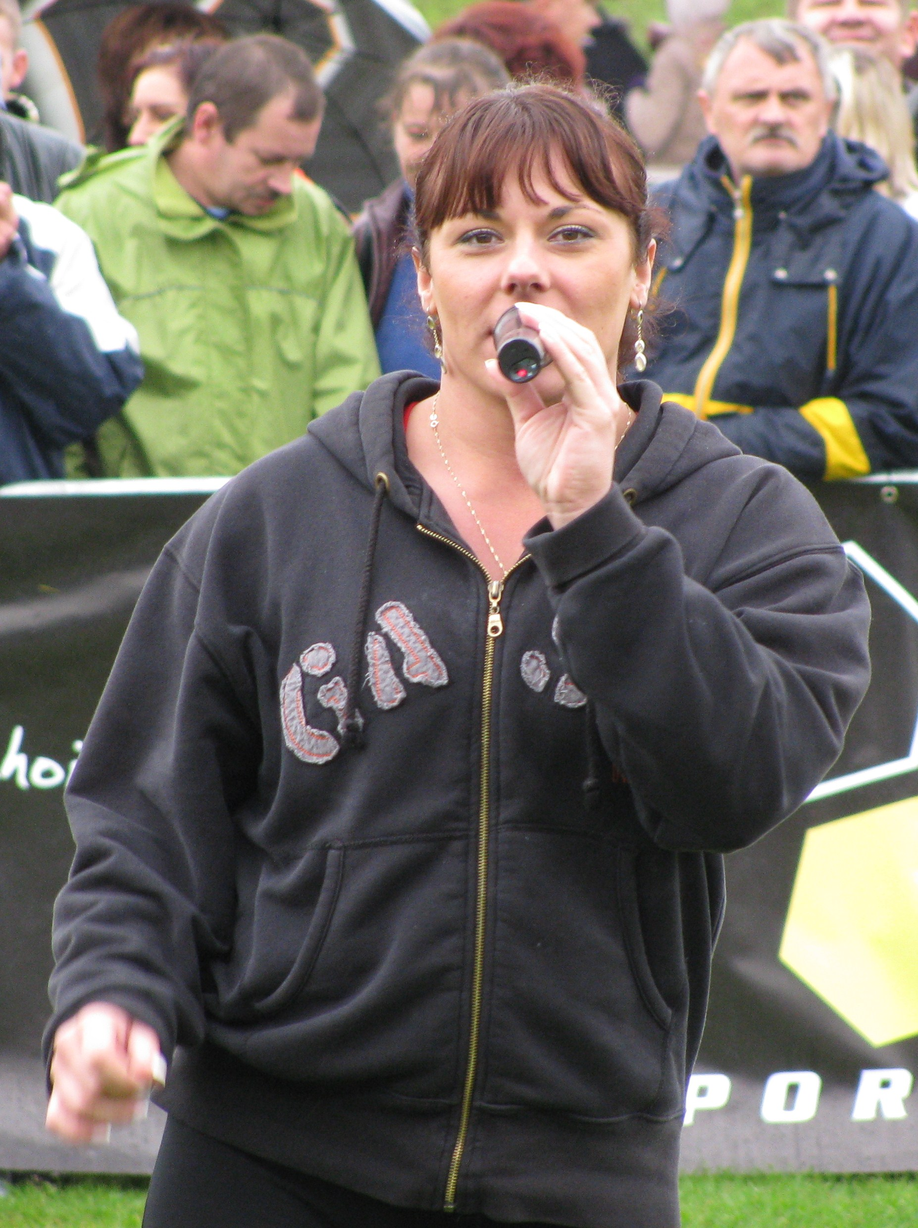 Aneta Florczyk - World's Strongest Woman.